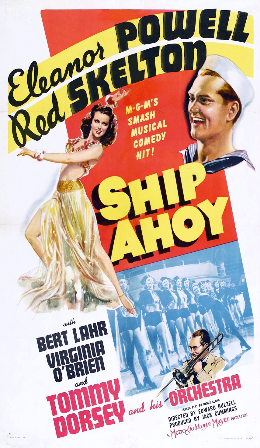 Poster for the 1942 film Ship Ahoy. The copy has had flaws fixed and was auto corrected. The item has no copyright markings on it as can be seen in the links above. At bottom left is a "C" (poster version C), Litho in USA and some numbers which apparently relate to the print job of the poster. At lower right is Tooker Litho Co., NY 42/177. The "D" version of this poster is at Commons as File:Ship Ahoy poster.jpg.